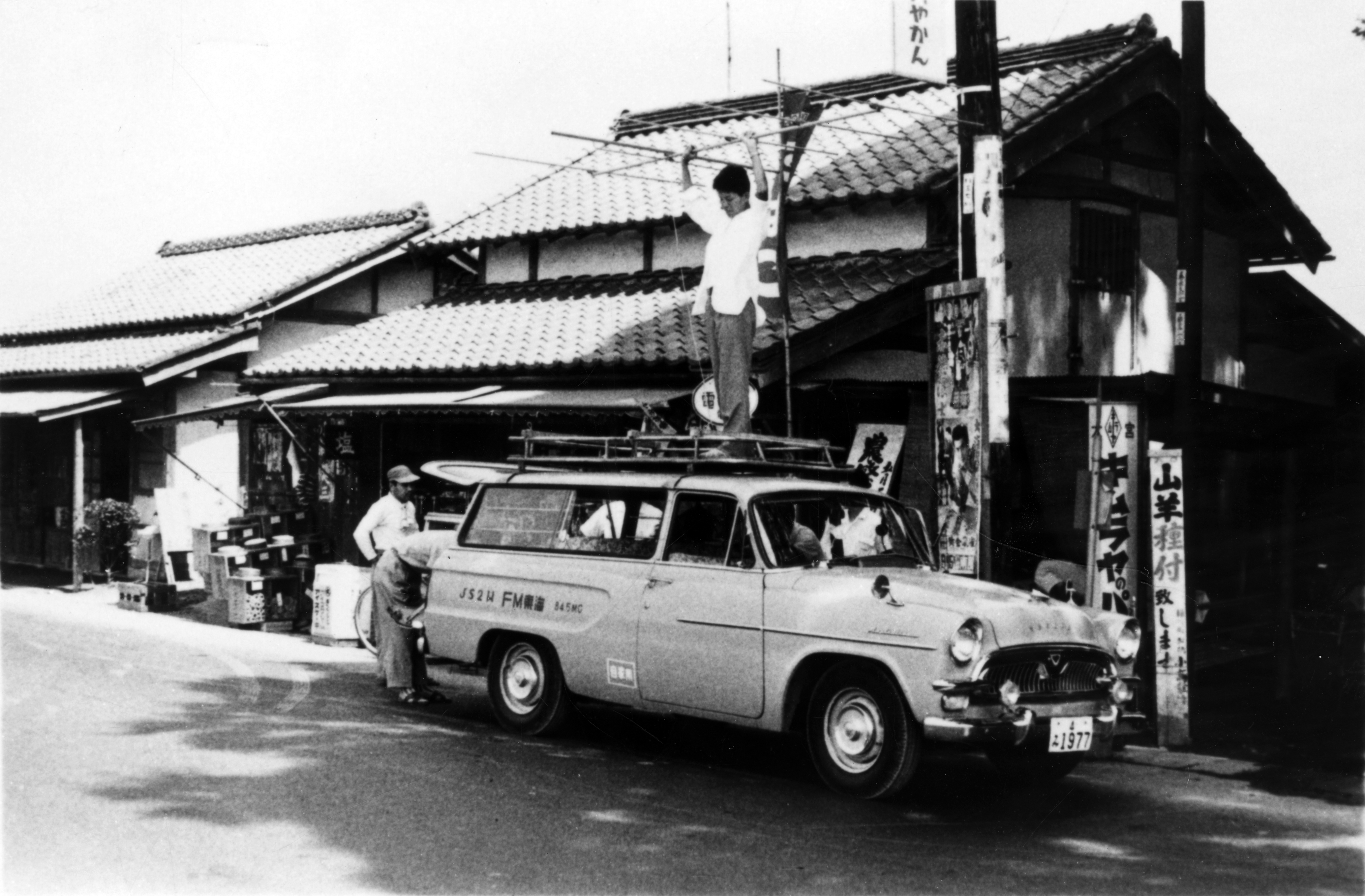 Magnitude Measurement of Electric Field